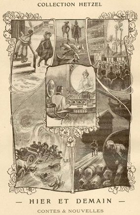 Front page of "Yesterday and Tomorrow" book